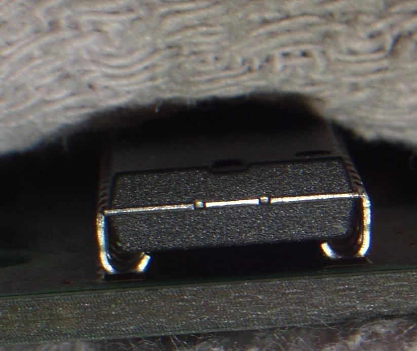 DIL as SMD